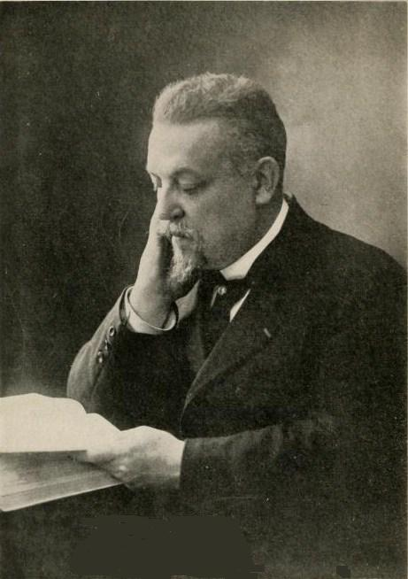 Portrait photo of Émile Boirac